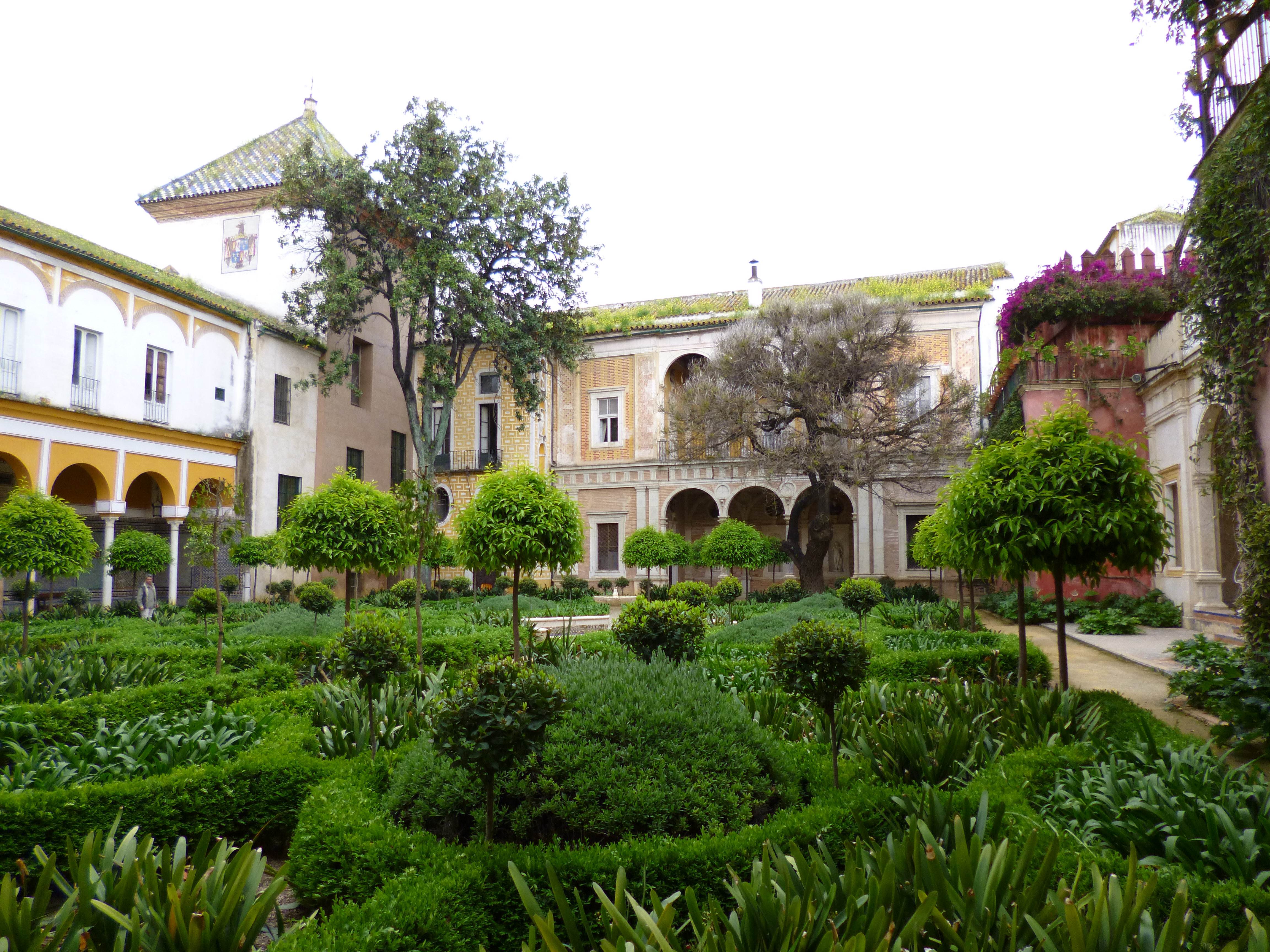 Garden in the Casa de Pilatos, Seville.